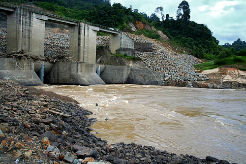 Bakun Dam is located in the northen region of Belaga, Sarawak